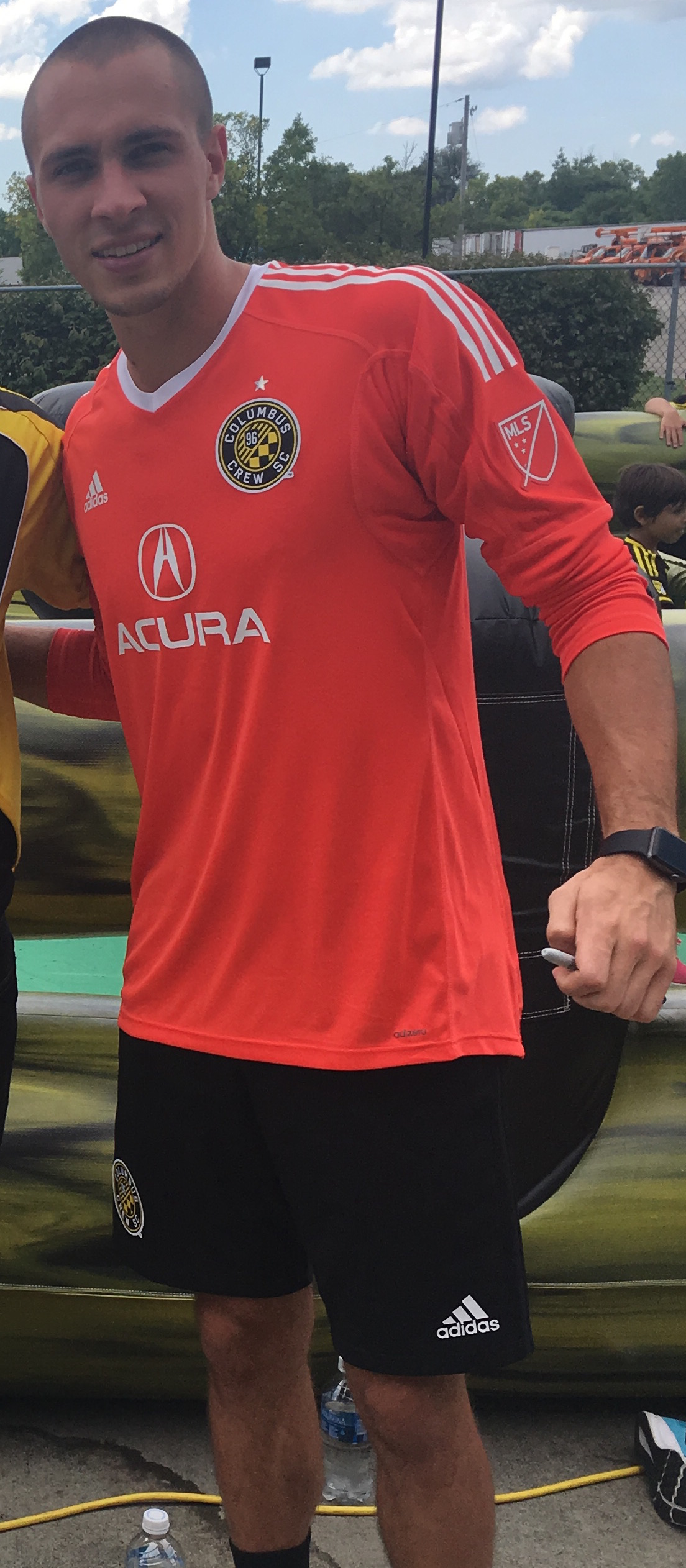 Picture of Logan Ketterer at a Columbus Crew SC Meet the Team event in 2017.